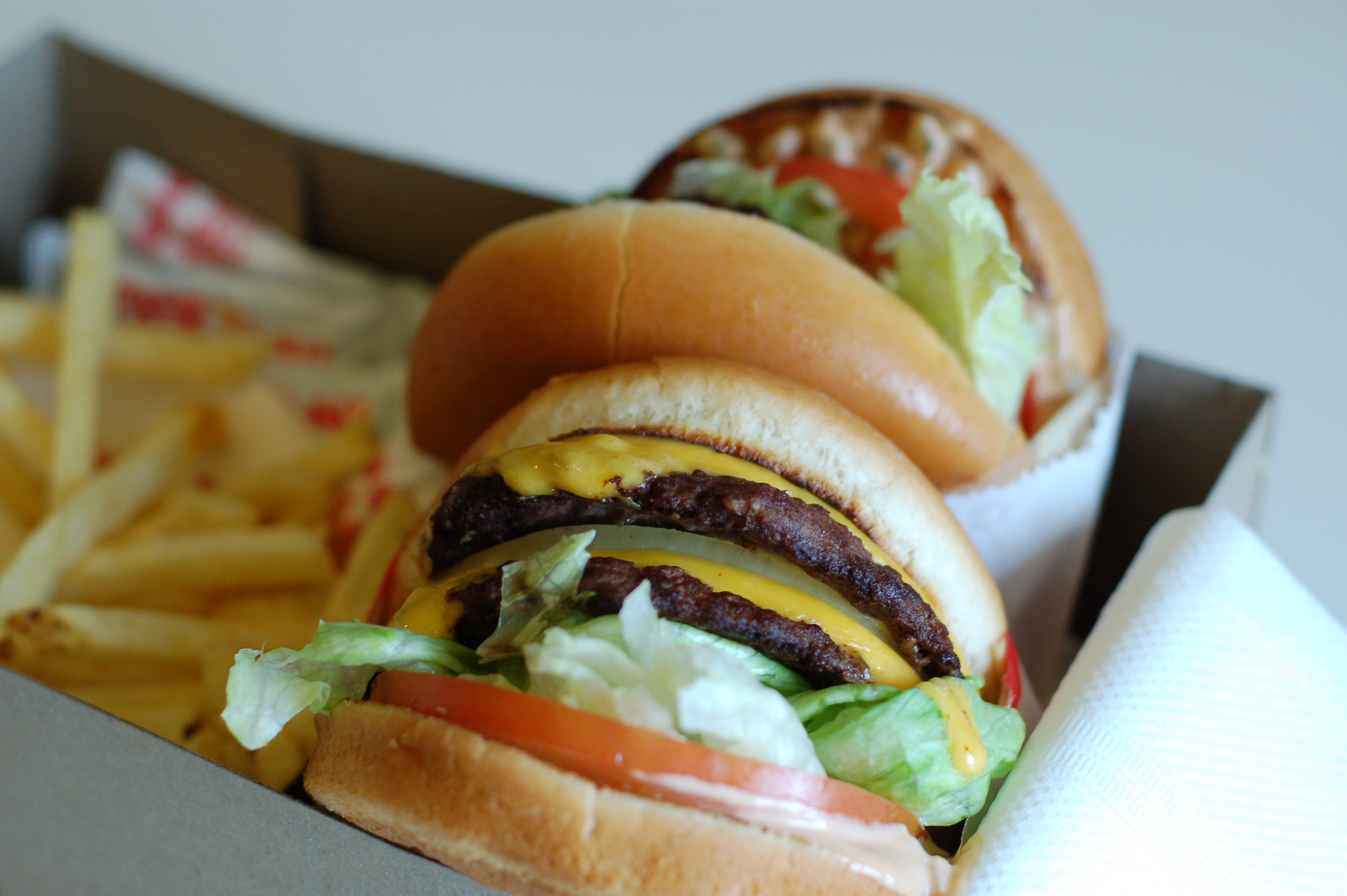 An In-N-Out Double-Double cheeseburger in narrow depth-of-field focus with a second burger and fries blurred in the background.